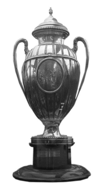 The "Copa Aldao" trophy given to the winning of the tournament. It was established in 1913 and the last edition disputed in 1955.